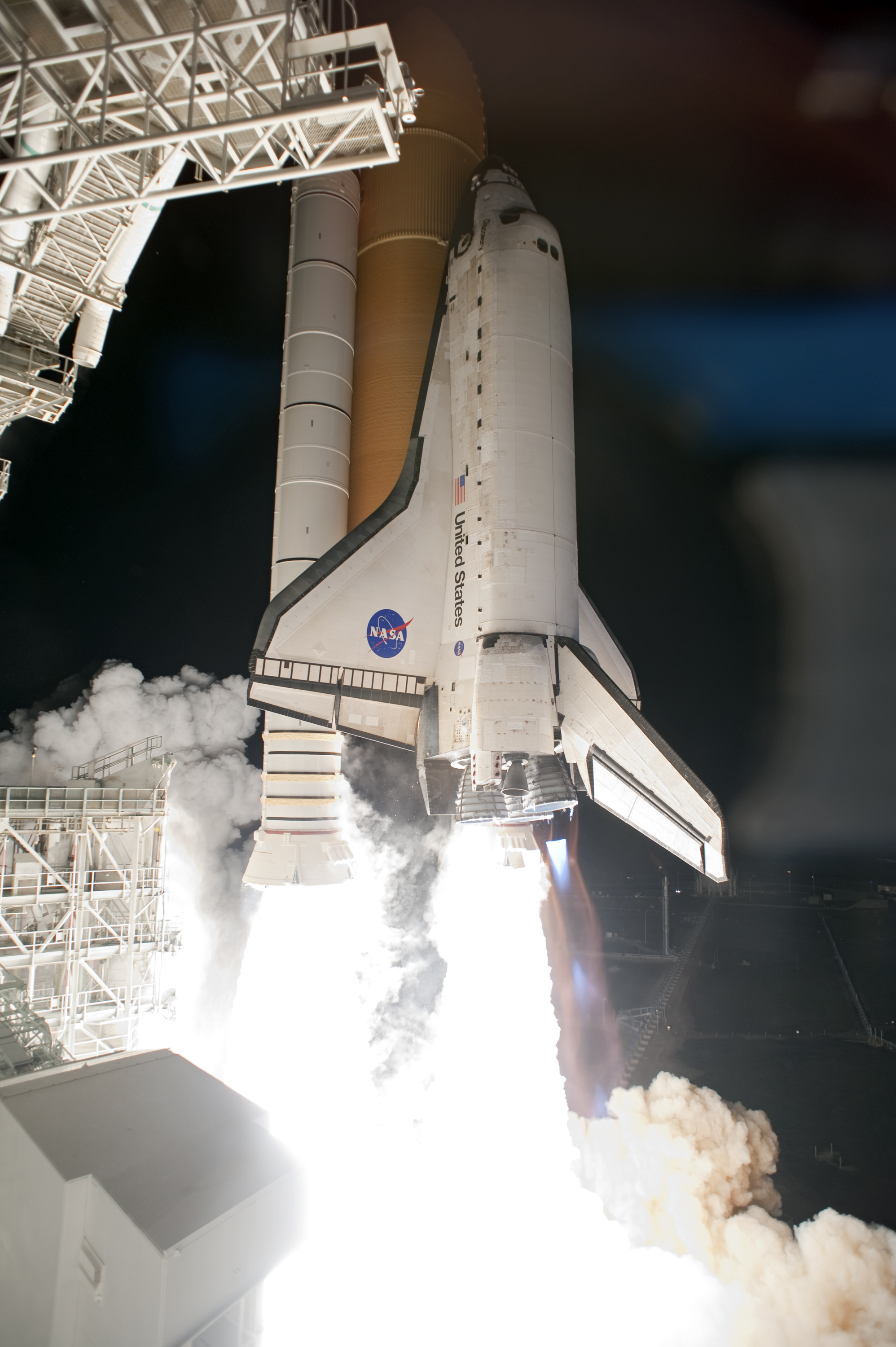 CAPE CANAVERAL, Fla. - Space shuttle Discovery roars off Launch Pad 39A at NASA's Kennedy Space Center in Florida beginning the STS-131 mission. Shuttle Discovery lifted off at 6:21 a.m. EDT on April 5, 2010. The seven-member STS-131 crew will deliver the multi-purpose logistics module Leonardo, filled with supplies, a new crew sleeping quarters and science racks that will be transferred to the International Space Station's laboratories. The crew also will switch out a gyroscope on the station’s truss, install a spare ammonia storage tank and retrieve a Japanese experiment from the station’s exterior. STS-131 is the 33rd shuttle mission to the station and the 131st shuttle mission overall. For information on the STS-131 mission and crew, visit